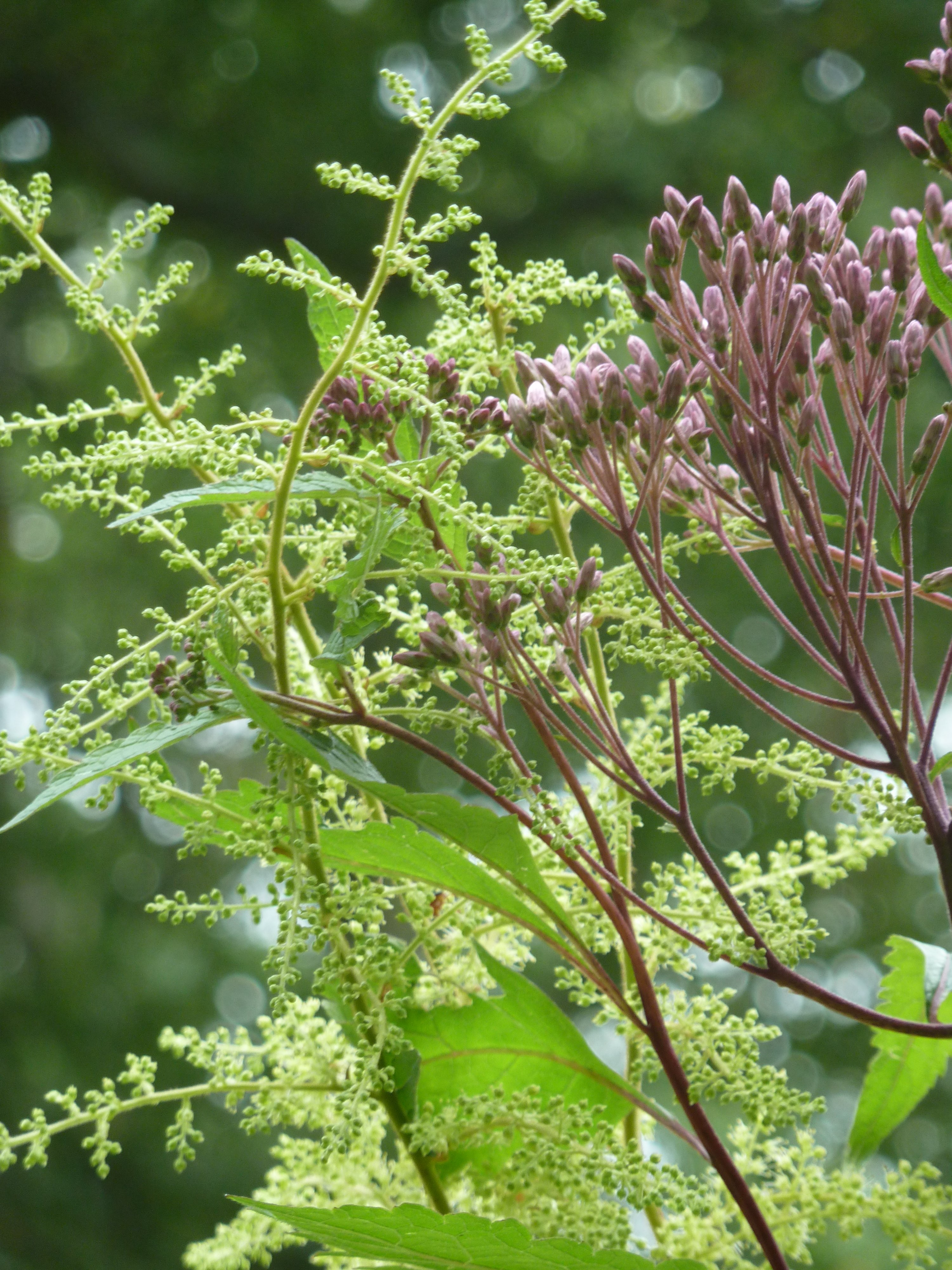 I bought this from Crug Farm last year. Bleddyn asked me if I wanted the Chinese or the Himalayan form. I asked what the difference was and he said 'The Himalayan form is rubbish'. The reddish flowers are Eupatorium maculatum Atropurpureum